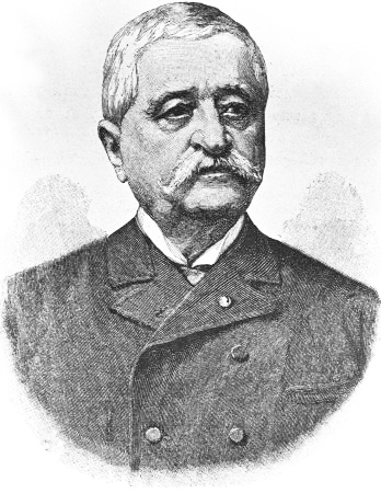 Potrait of Christakis Zografos